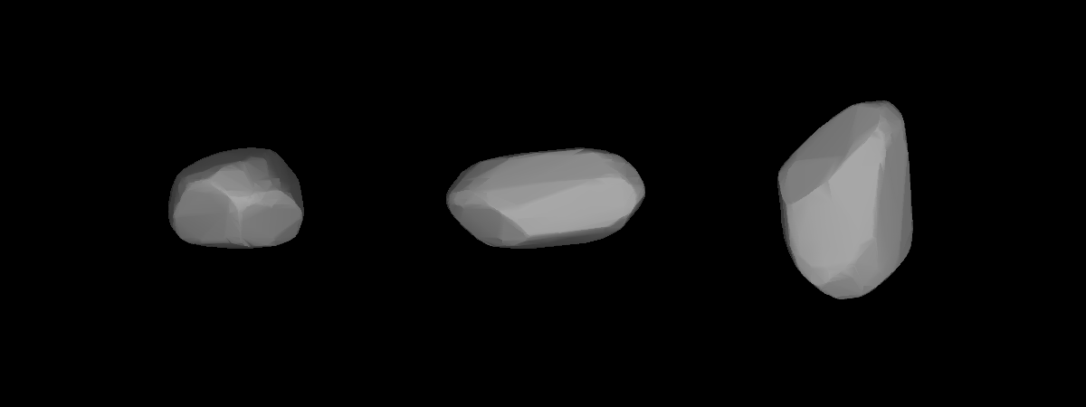 A three-dimensional model of 915 Cosette that was computed using light curve inversion techniques.